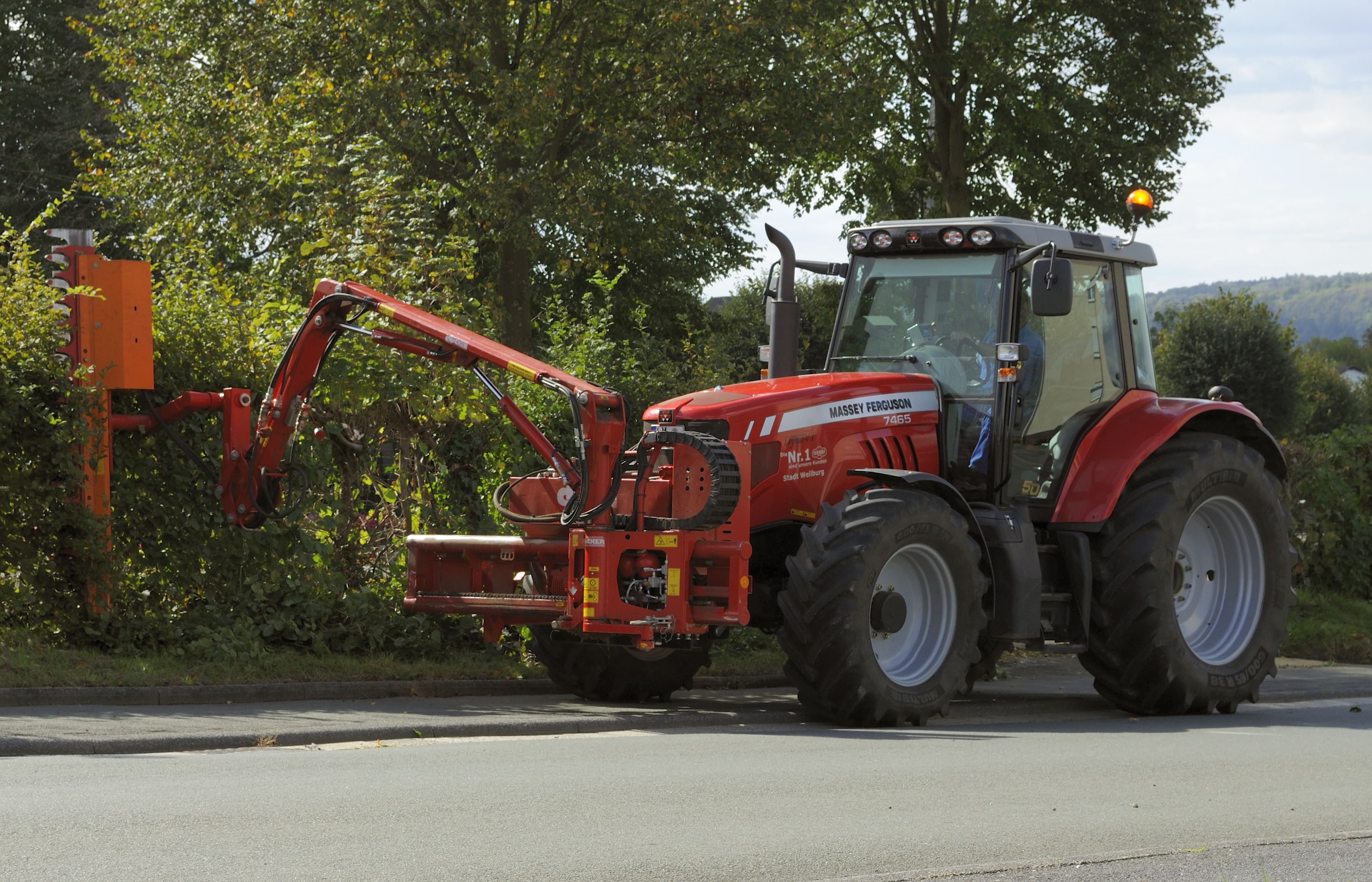 Picture taken for Wikipedia:Wiki Loves Monuments Mittelhessen. A Massey Ferguson 7465 tractor fitted with a Dücker "branch and hedge cutter" at the front (a giant brush trimmer, not a reach flail mower!)